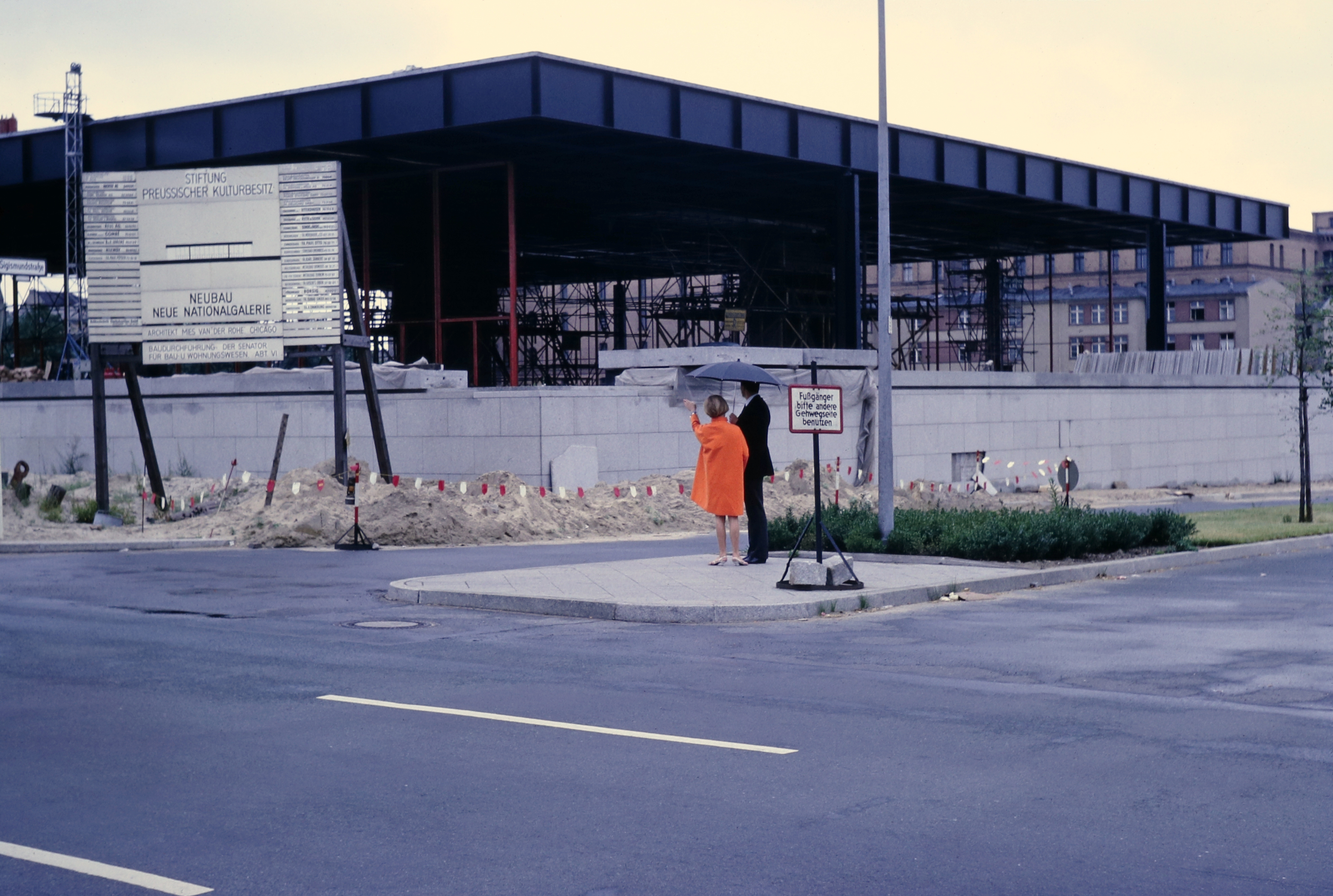 Construction site of Neue Nationalgalerie, Berlin, Germany.